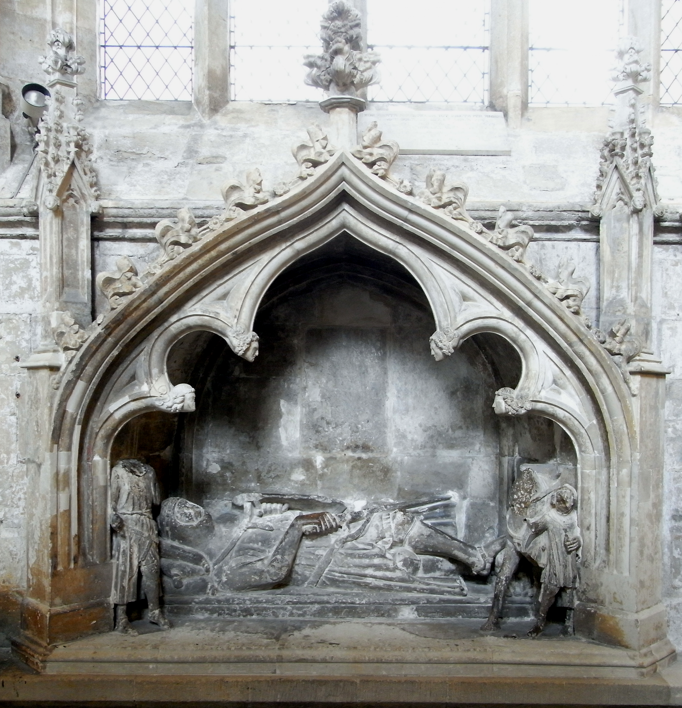 Sir Richard de Stapledon (d.1326) of Annery in the parish of Monkleigh, Devon, monument in Exeter Cathedral, Devon